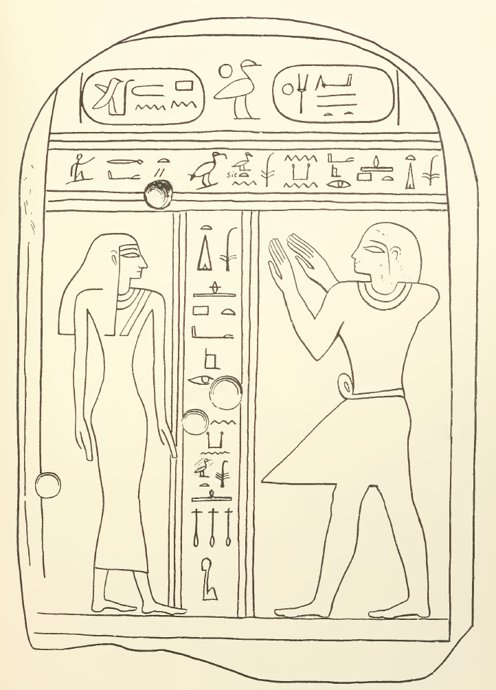 Drawing of a limestone stele depicting prince Djehuti-Aa and princess Hotepneferu. At the top, the cartouches of pharaoh (Sekhemre-khutawy Pantjeny). From Abydos. British Museum 282 (registr. no. 630).